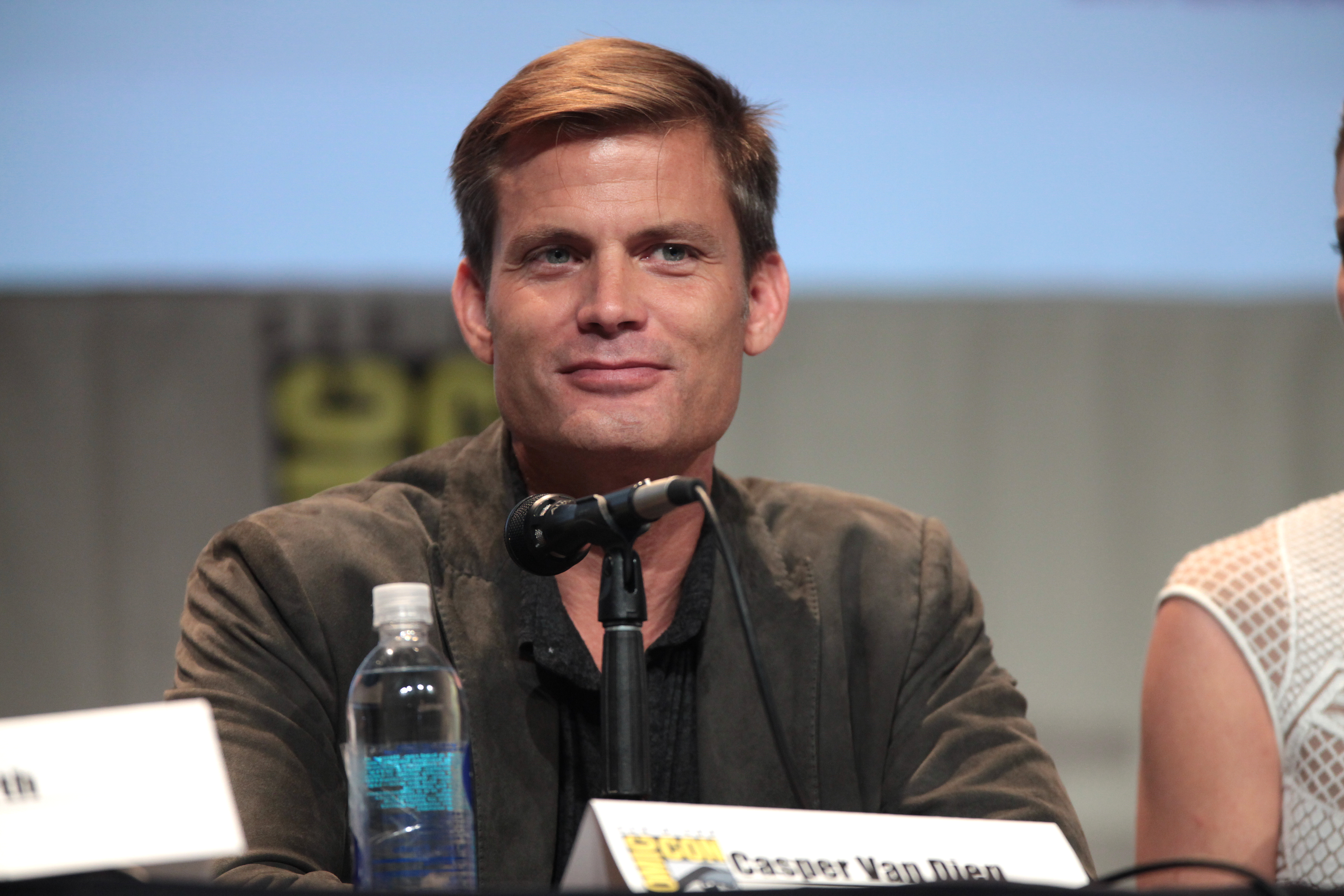 Casper Van Dien speaking at the 2015 San Diego Comic Con International, for "Con Man", at the San Diego Convention Center in San Diego, California.